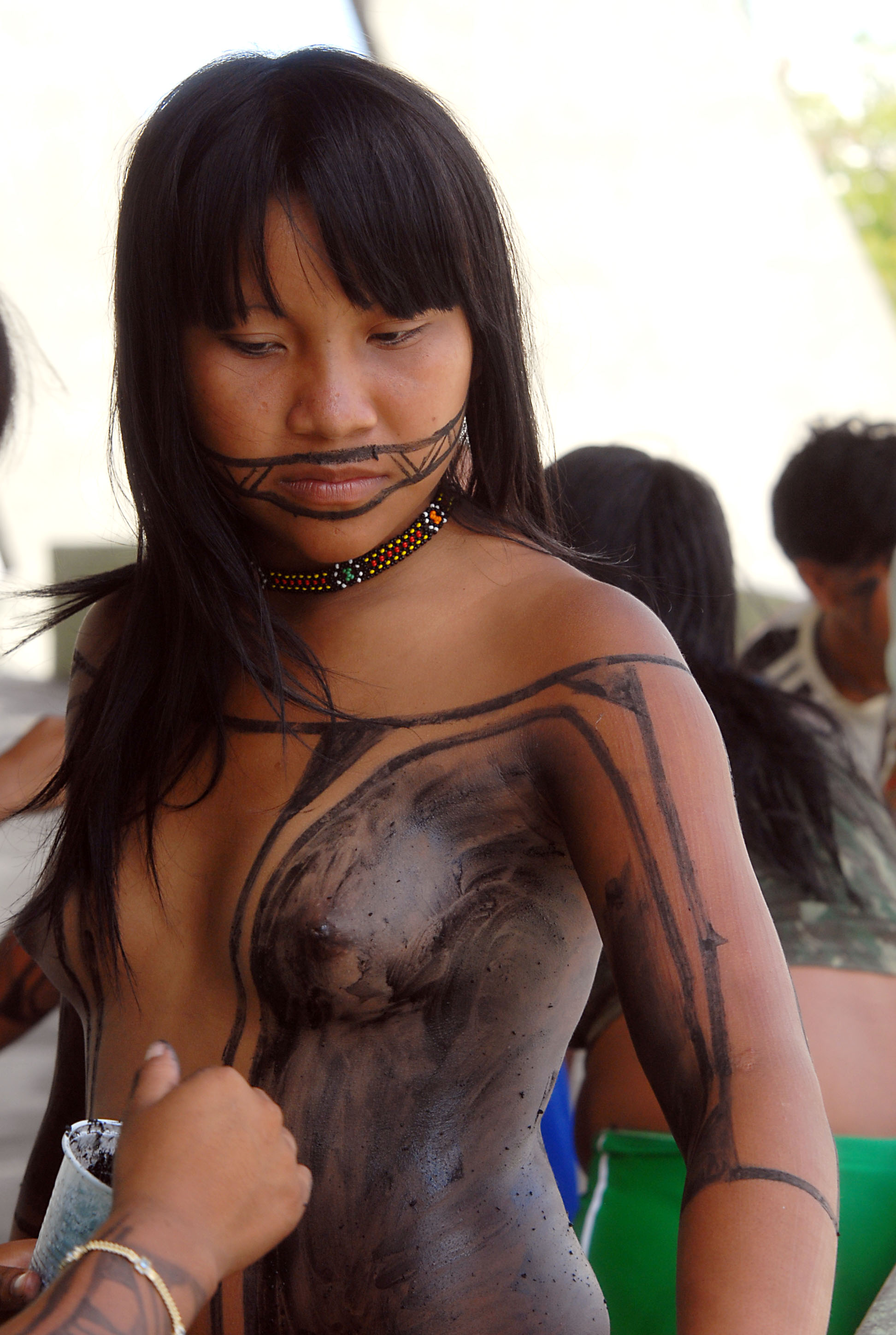 Indigenous ethnic Tapirapé form of painting in the body